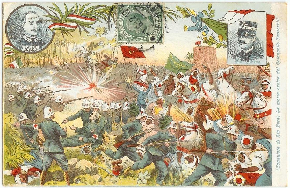 Propaganda posttcard made by Italian Army dedicated to Giovanni Pastorelli (1859-1911), fallen in Libya during Italo-Turkish War.